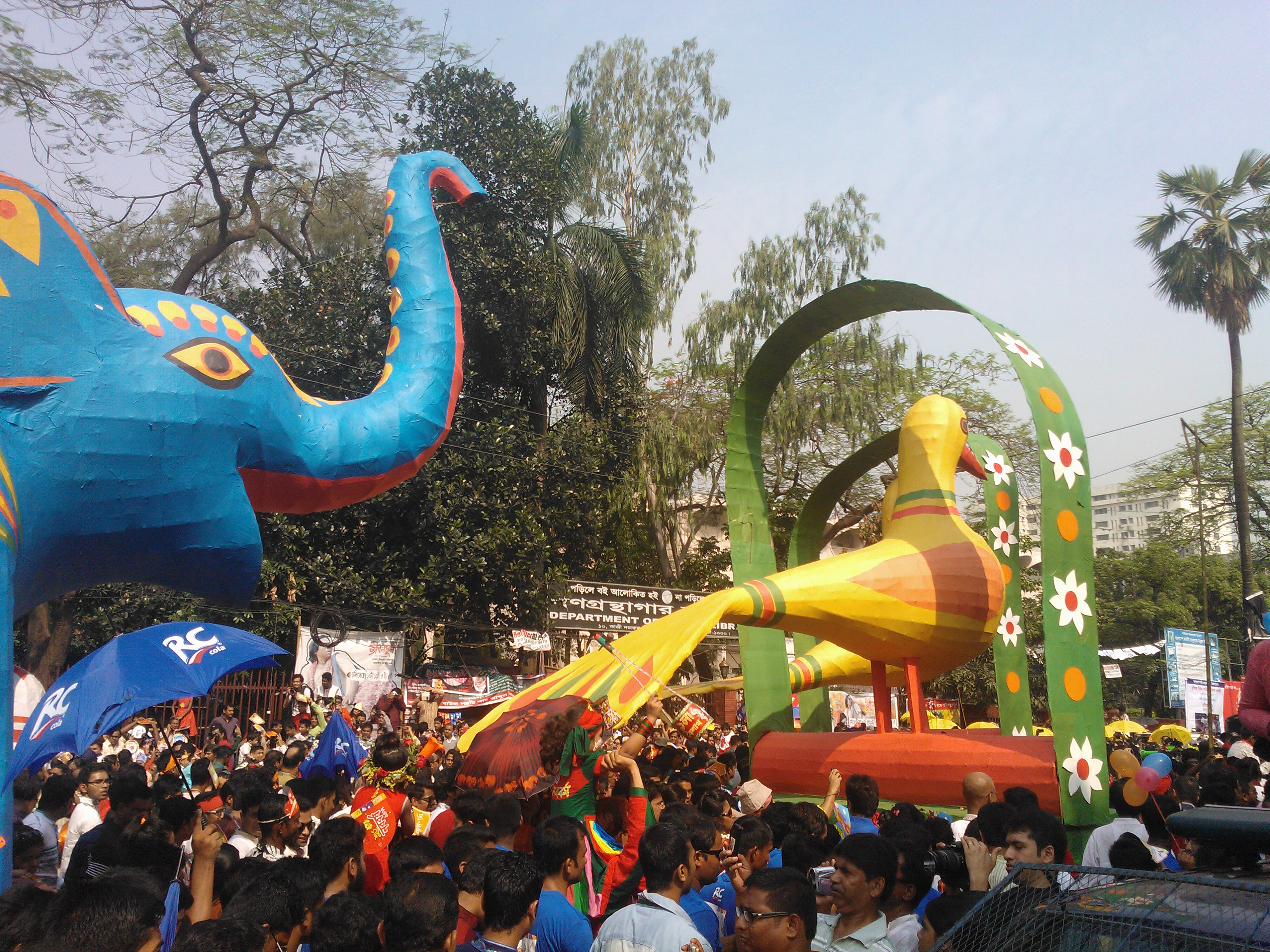 An integral part of Pohela Boishakh. Mongol Shobhajatra, a traditional colourful procession organised by the students of the Faculty of Fine Arts (Charukala) of Dhaka University.